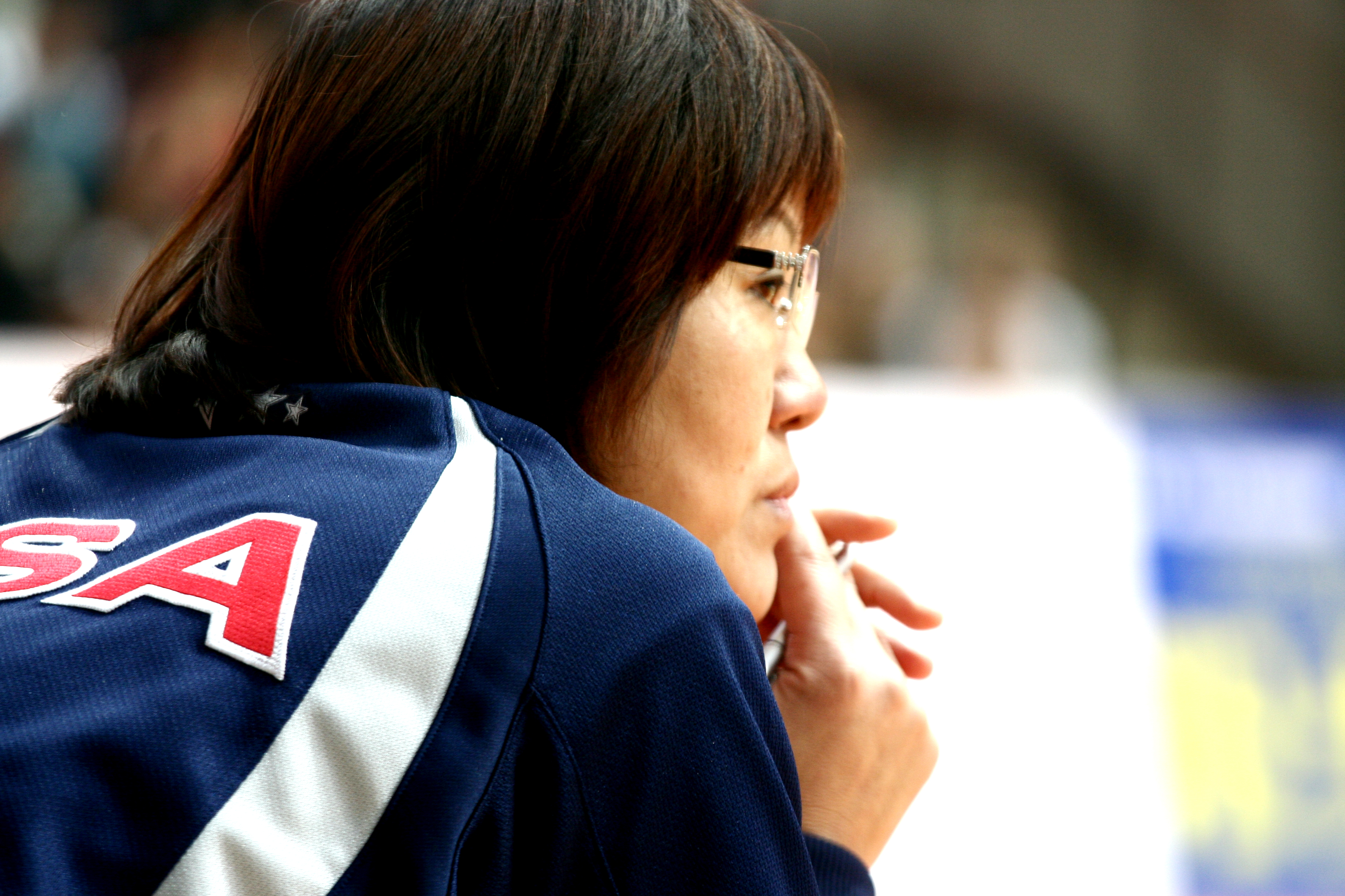 US Women's Volleyball Team coach Lang Ping at Nanjing, Jiangsu, China on April 2, 2008. US Women's Volleyball Training Team vs. Jiangsu Province Professional Club Team (a.k.a. Southeast University, Nanjing) at Nanjing University of Finance & Economics.